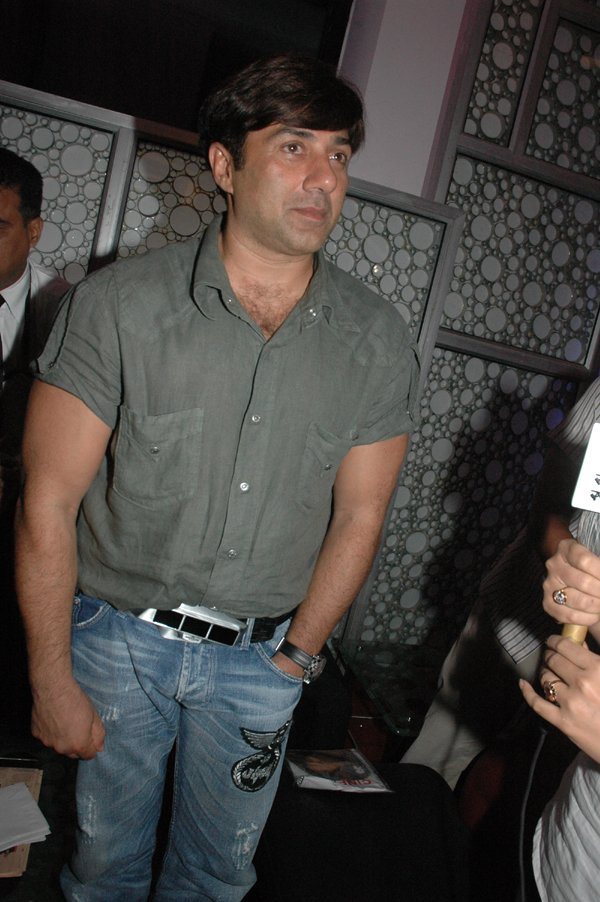 Premiere Of Ahista Ahista